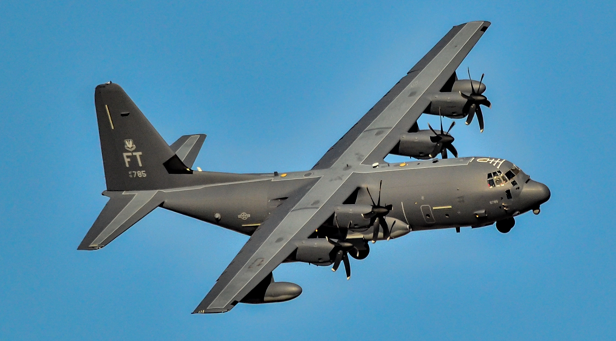 Las Vegas - Nellis AFB (LSV / KLSV) USA - Nevada, February 22, 2017 Photo: TDelCoro